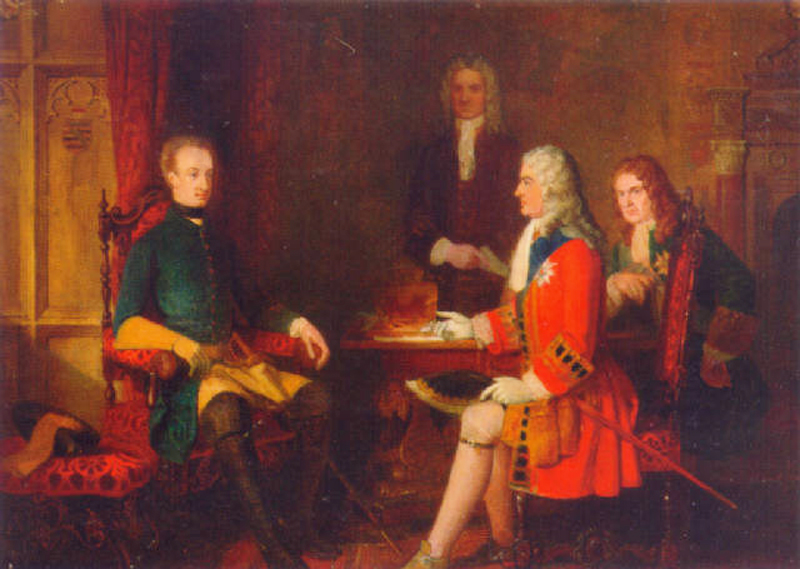 König Karl XII. und der Herzog von Marlborough. Henry Edward Doyle (1827-1892). 1887.